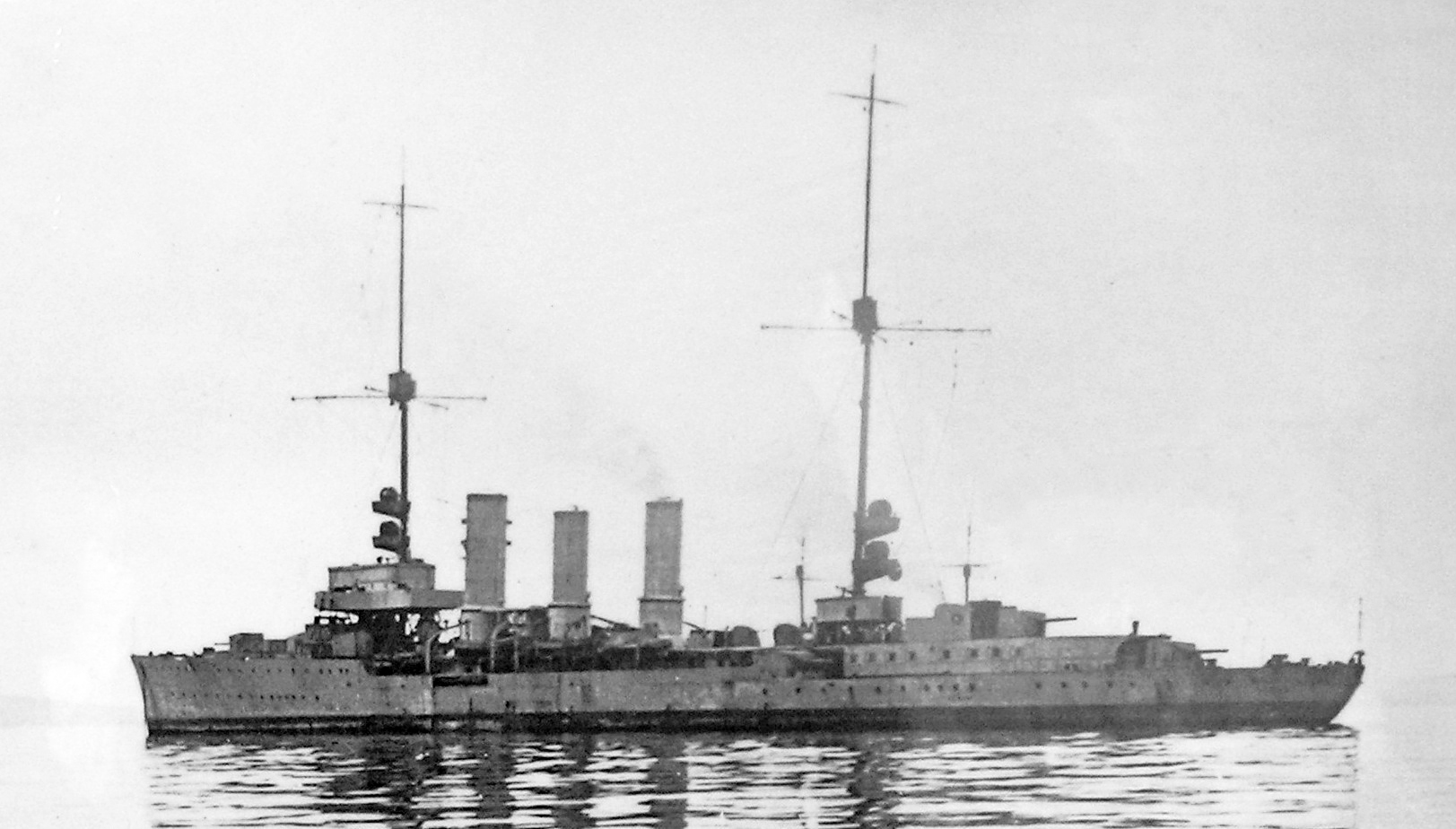 SMS Koln (1916) launched on 5 October 1916 at Blohm & Voss in Hamburg. Scuttled at Scapa Flow on on 21 June 1919.